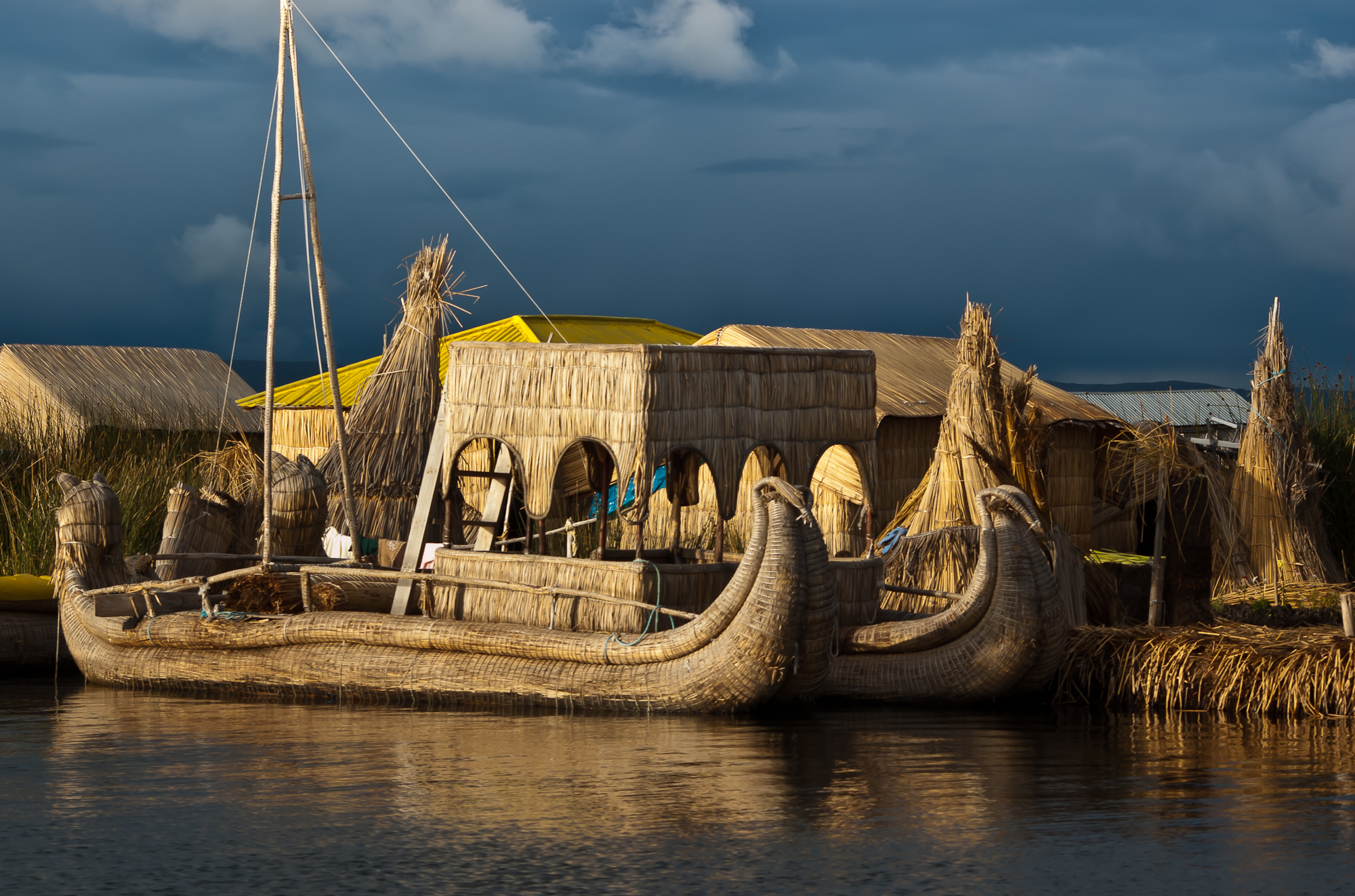 Peru - Puno - Titicaca Lake - Aimara (Aymara) Village on the water.